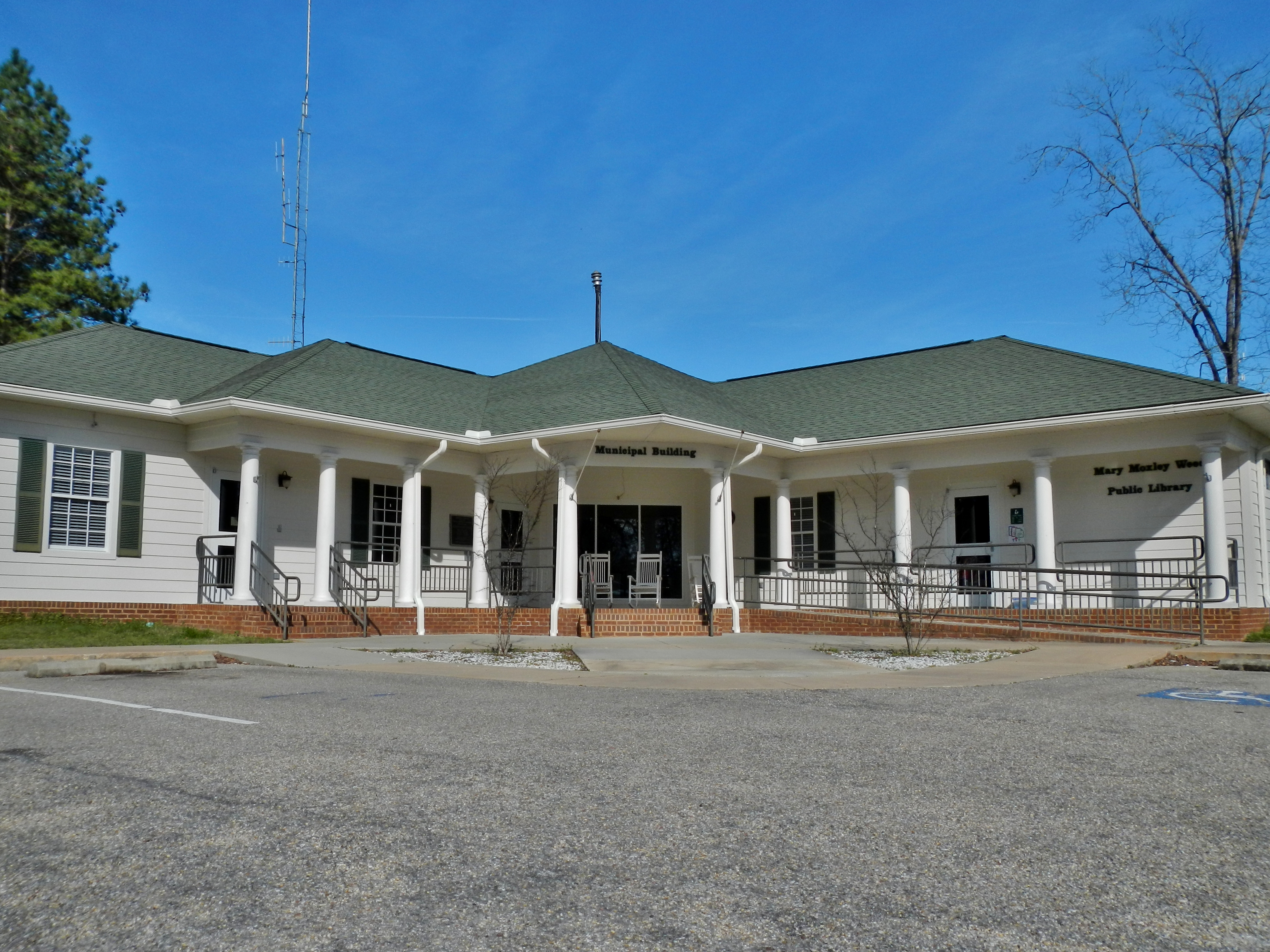 This is a photo of the Municipal Building and Mary Moxley Weed Public Library in Brantley, Alabama.